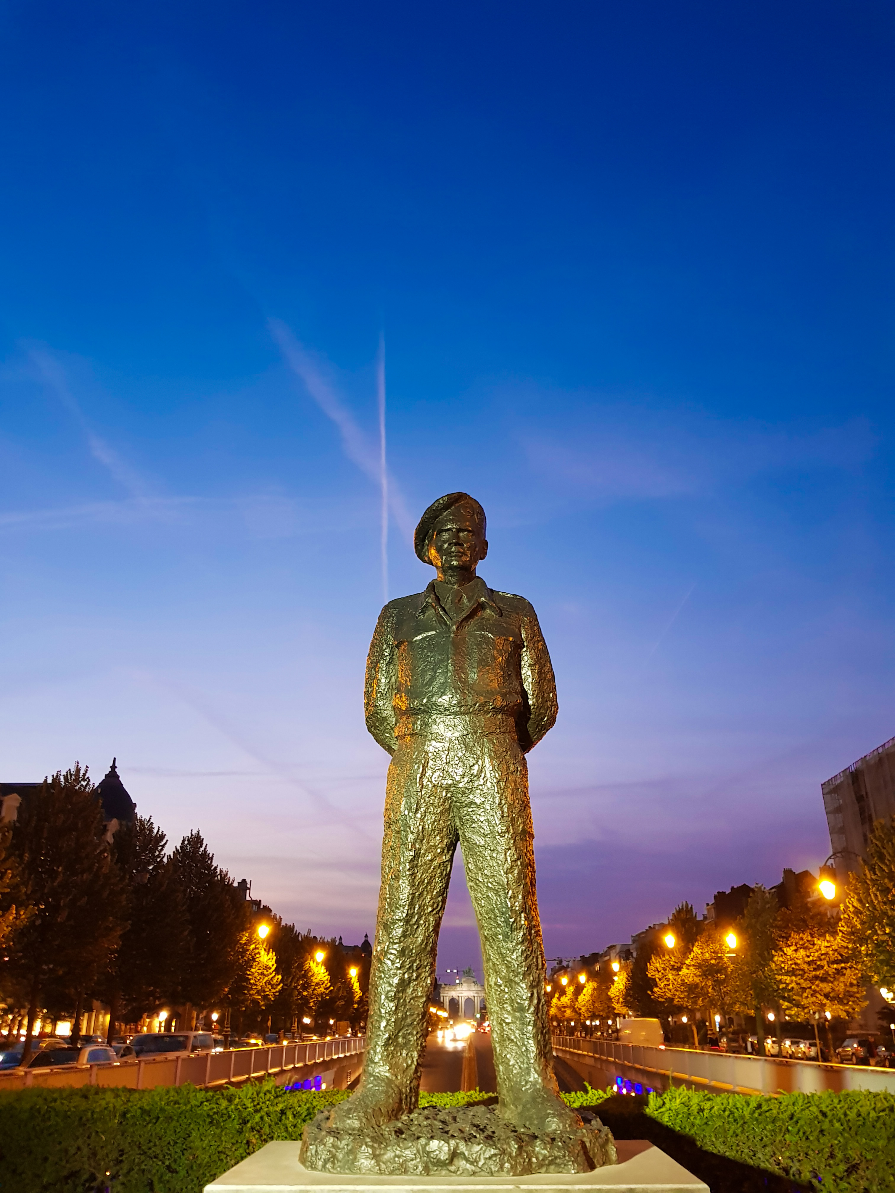 Bernard Montgomery statue